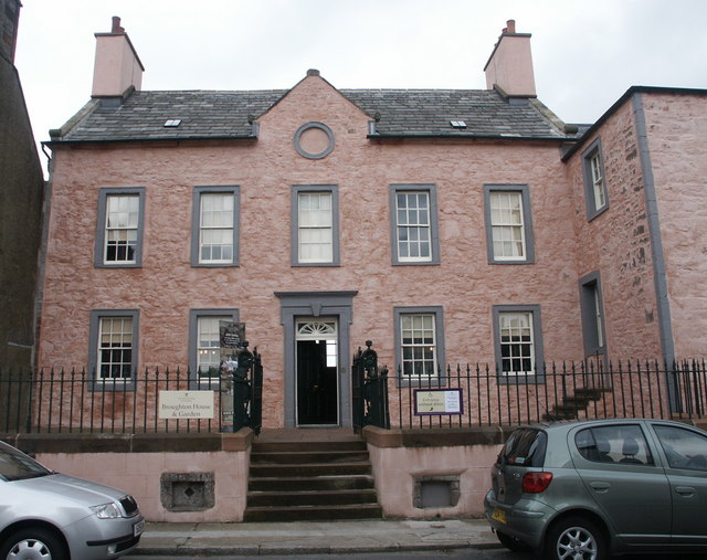 Broughton House, High Street, Kirkcudbright Dating from around 1750 and once (1910) the home of famous Glasgow artist, E. A. Hornel - one of the so-called Glasgow Boys - now open to the public as a museum.